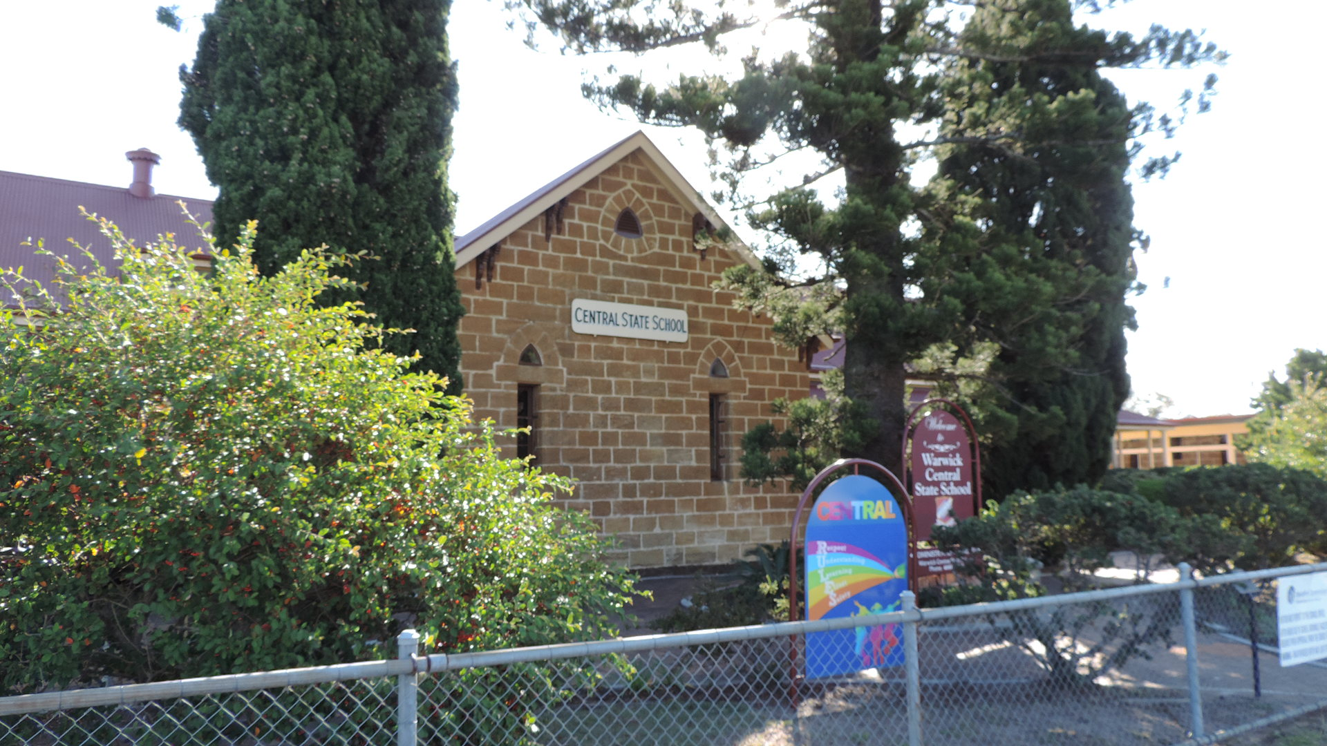 Warwick Central State School, 55B Guy Street (corner Percy Street), Warwick, Queensland, 2015